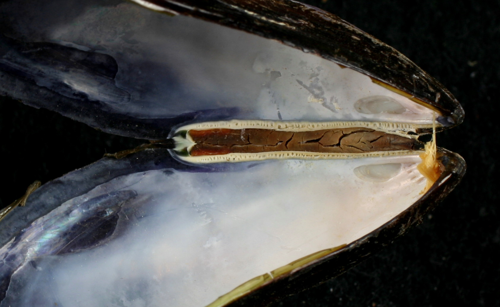 Mytilidae close up dysodont hinge